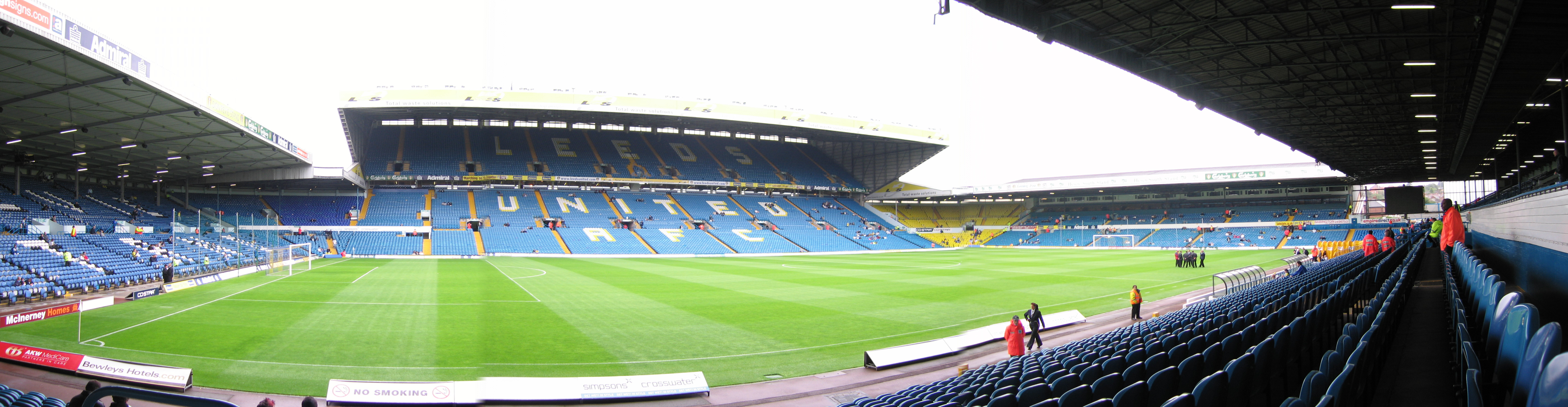 A panoramic image of Elland Road football ground in Leeds, taken from the West Stand. Taken on the 19th of August 2007.